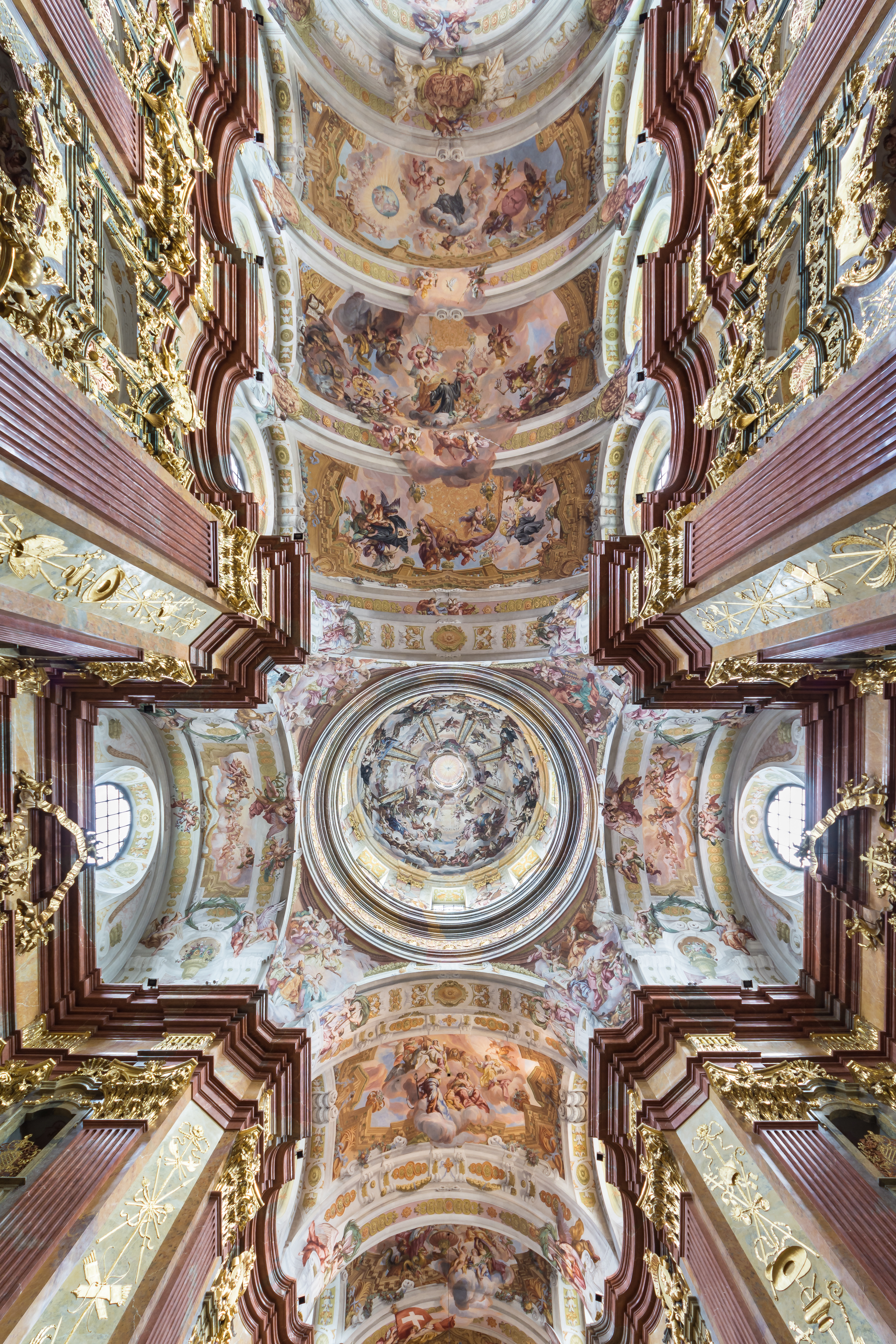 Frescos of dome and ceiling in Melk Abbey Church by Johann Michael Rottmayr (1716-22)